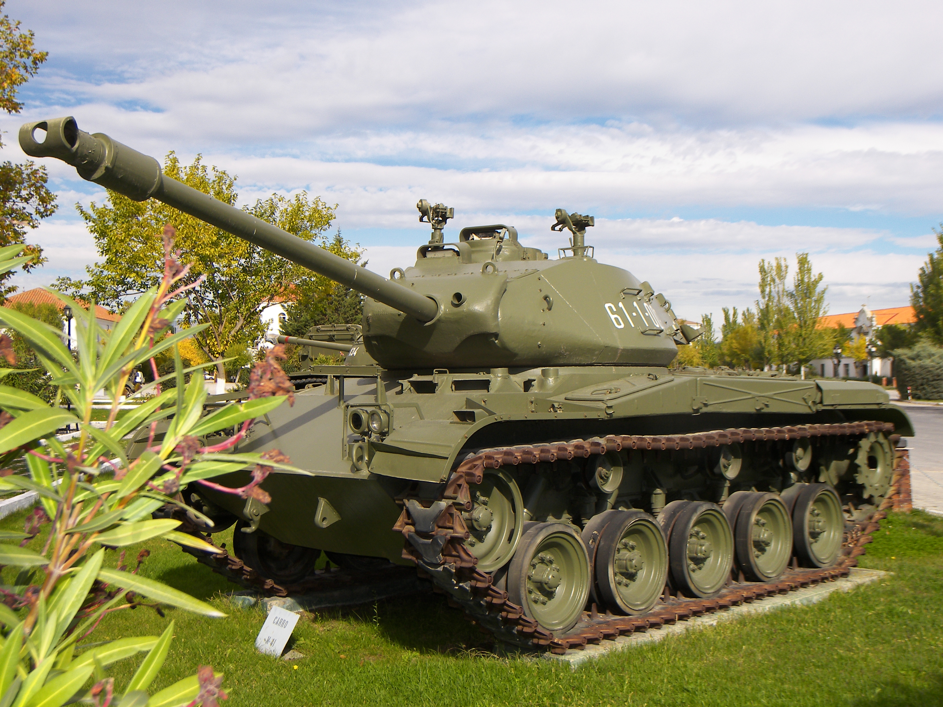 Spanish M41 Walker Bulldog at the El Goloso Museum.